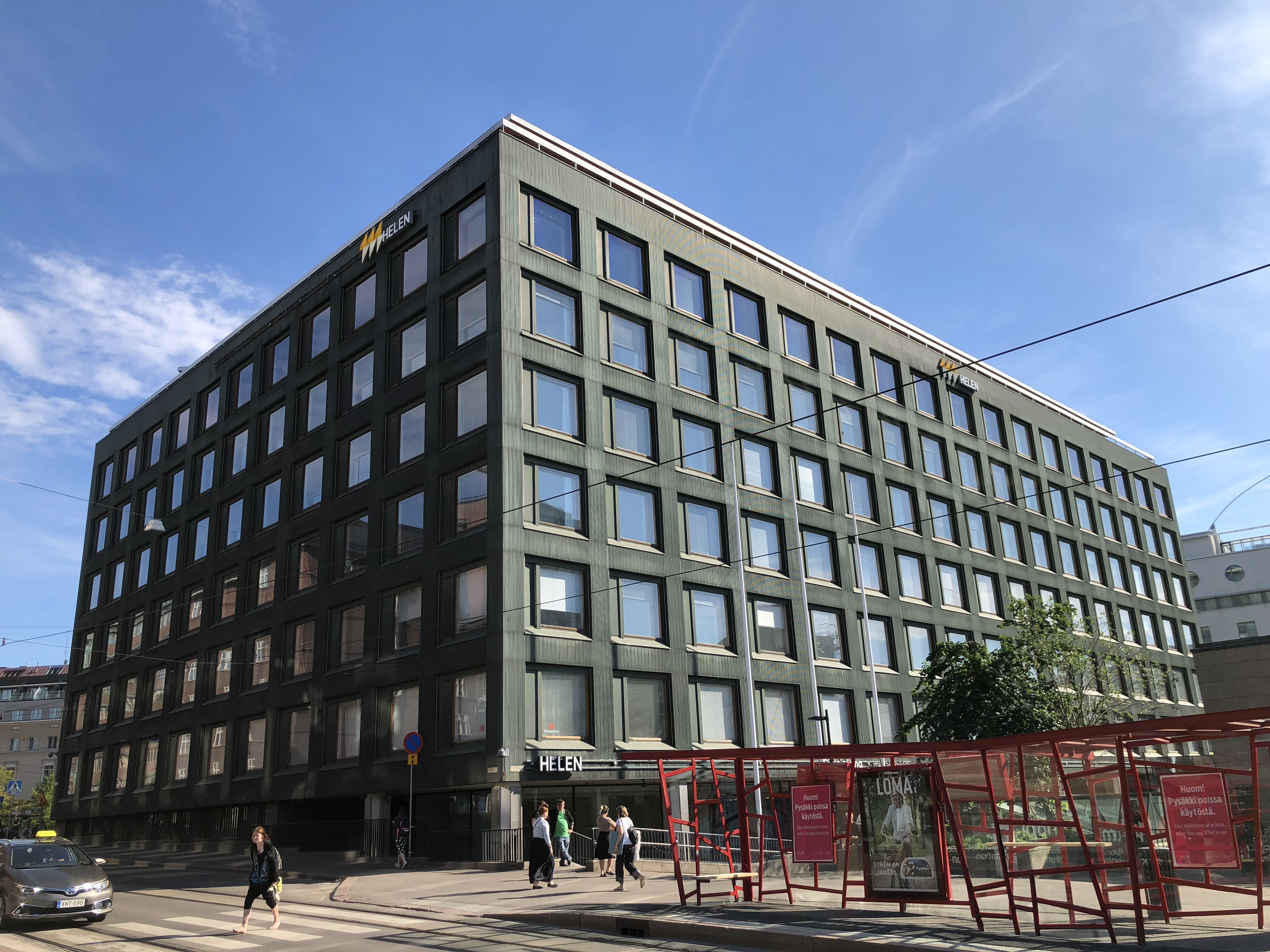 Sähkötalo building filmed in summer 2018